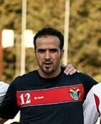 Lo'ai Al-Amaireh before Football match between Jordan national football team and Syria national football team in Shahid Dastgerdi Stadium, Tehran. 2015 AFC Asian Cup qualification.